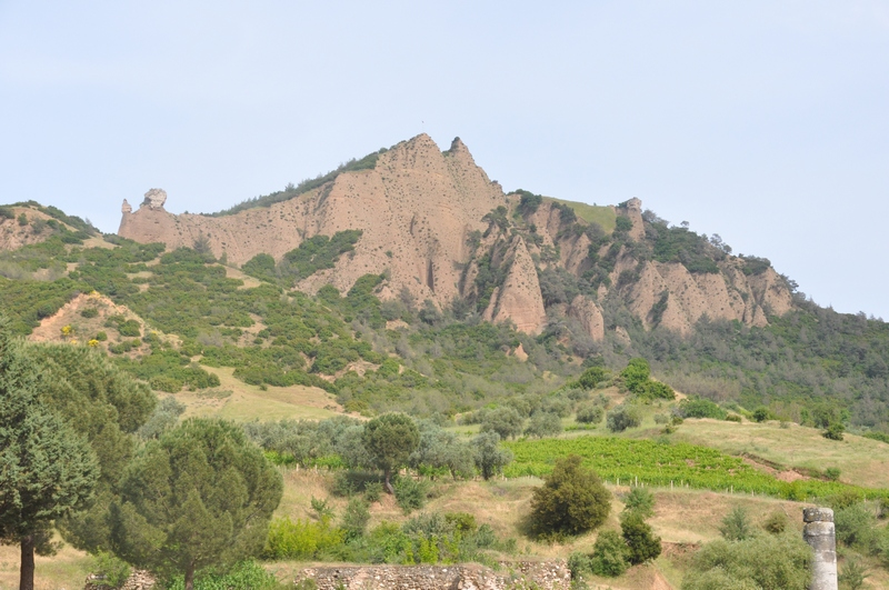 Sardes citadel